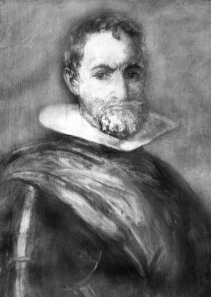 Don Francisco de Aguirre (Talavera de la Reina, 1508—La Serena, 1581) was a Spanish conquistador who participated in the conquest of Chile.